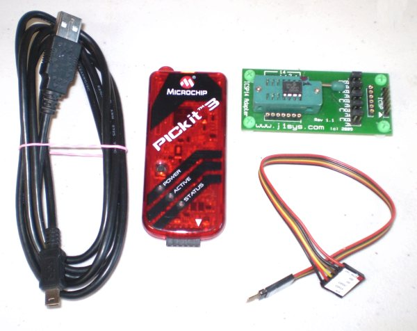 Example of ICSP programmer and cables